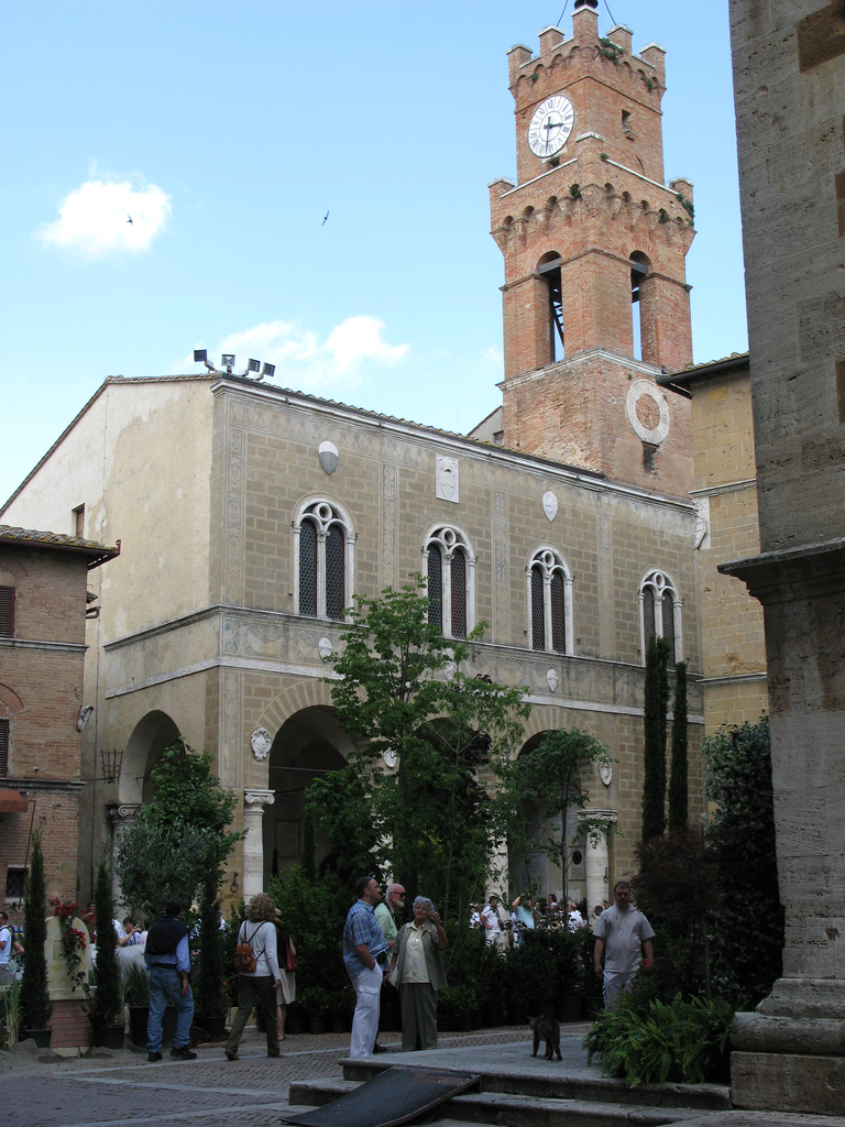 see above